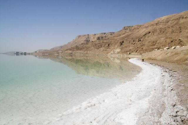 For more pictures and videos of Israel, please visit here. Salt buildup on the shores of the Dead Sea.